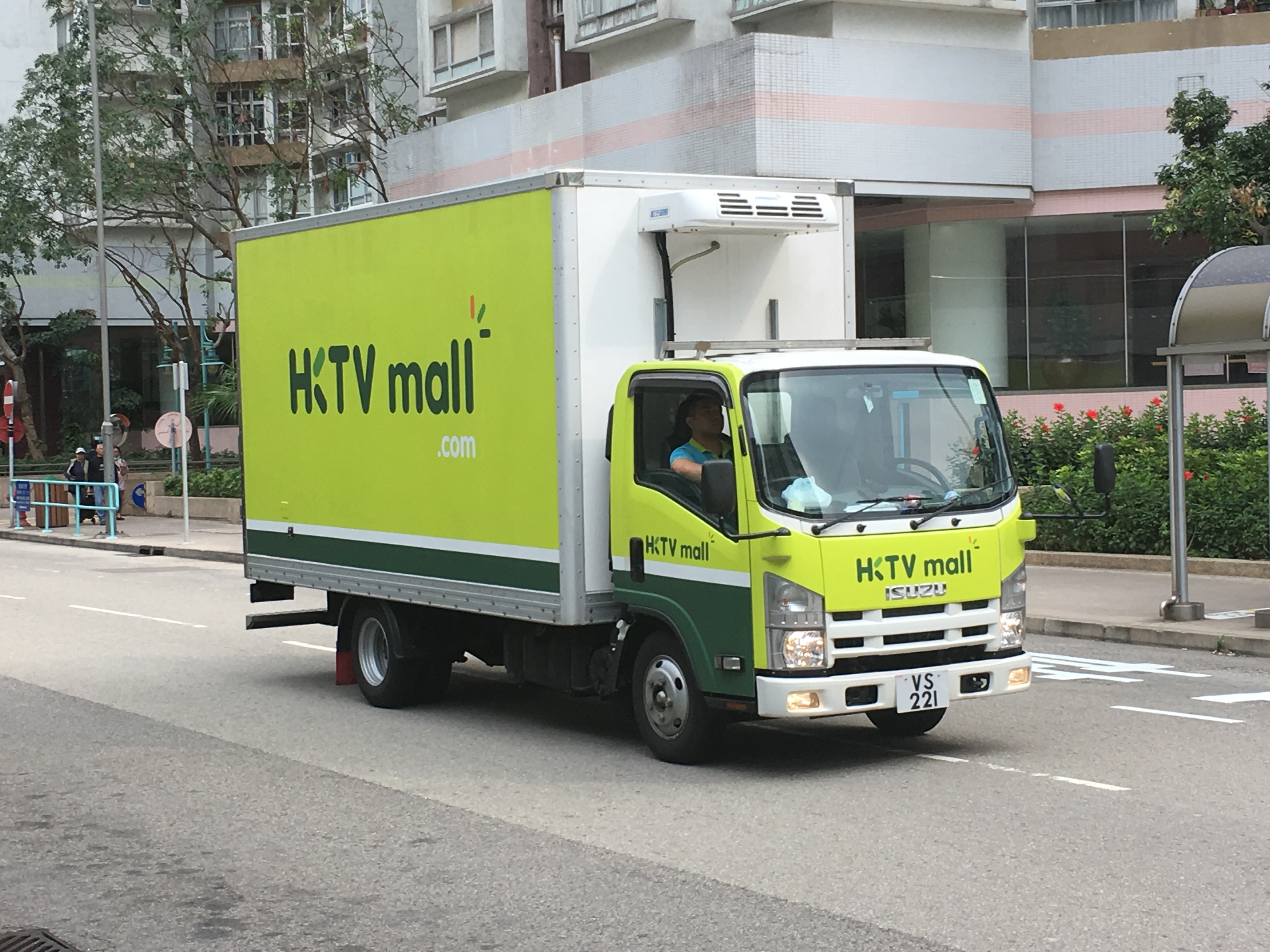 中文（香港）: This photo is taken in South Horizons.